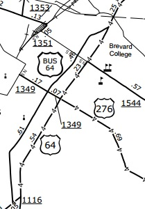 Small cut-out of the 2014 updated Transylvania County transportation map showing US 64 Business. This is from the North Carolina Department of Transportation, a work of a state government agency.